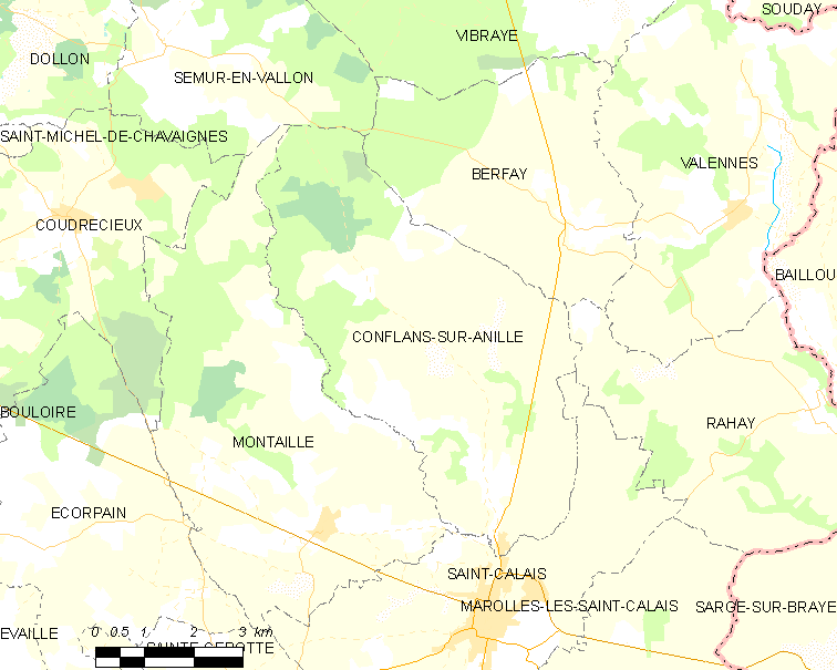 Map of French municipality